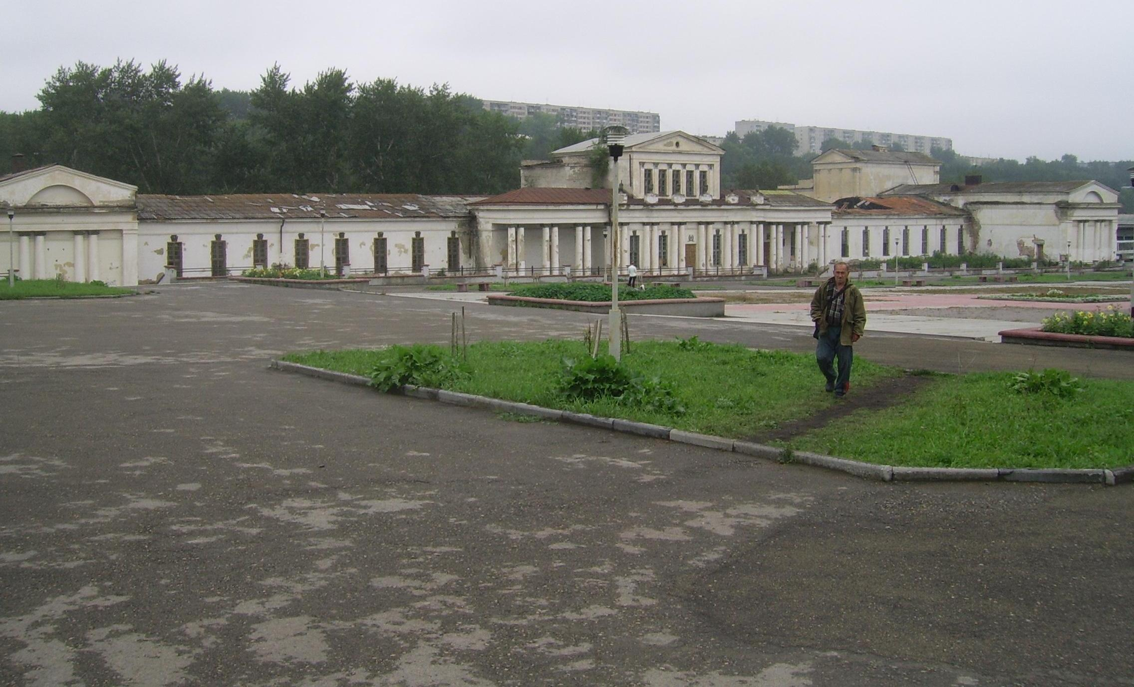 Warehouses plant in Kamensk-Uralsky, Sverdlovsk oblast, Russia